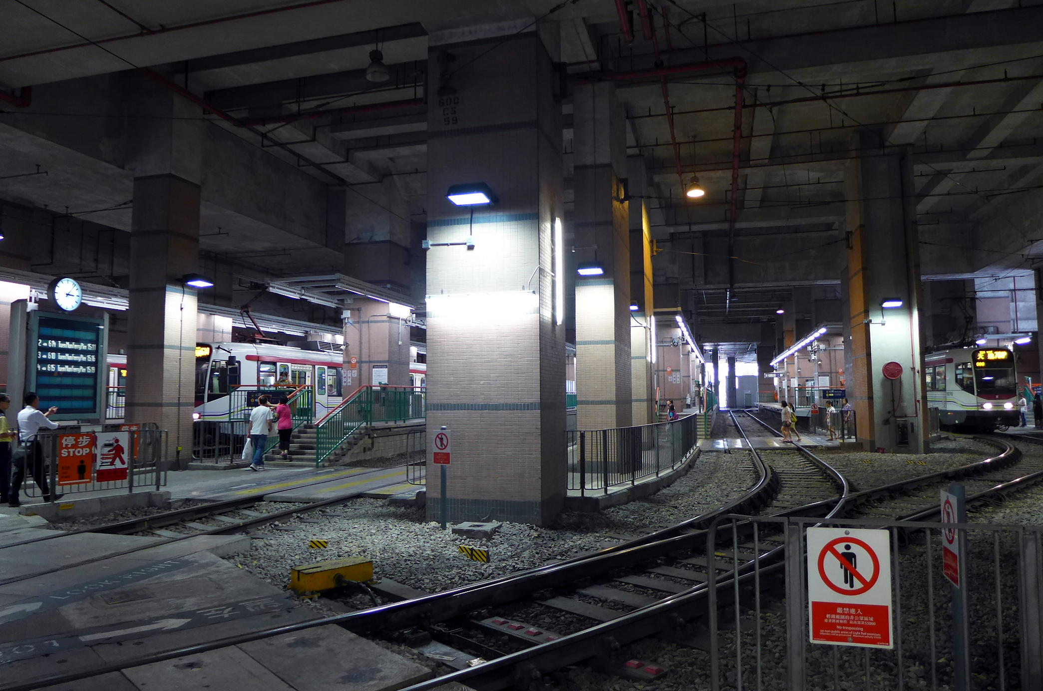 Yuen Long LRT Station